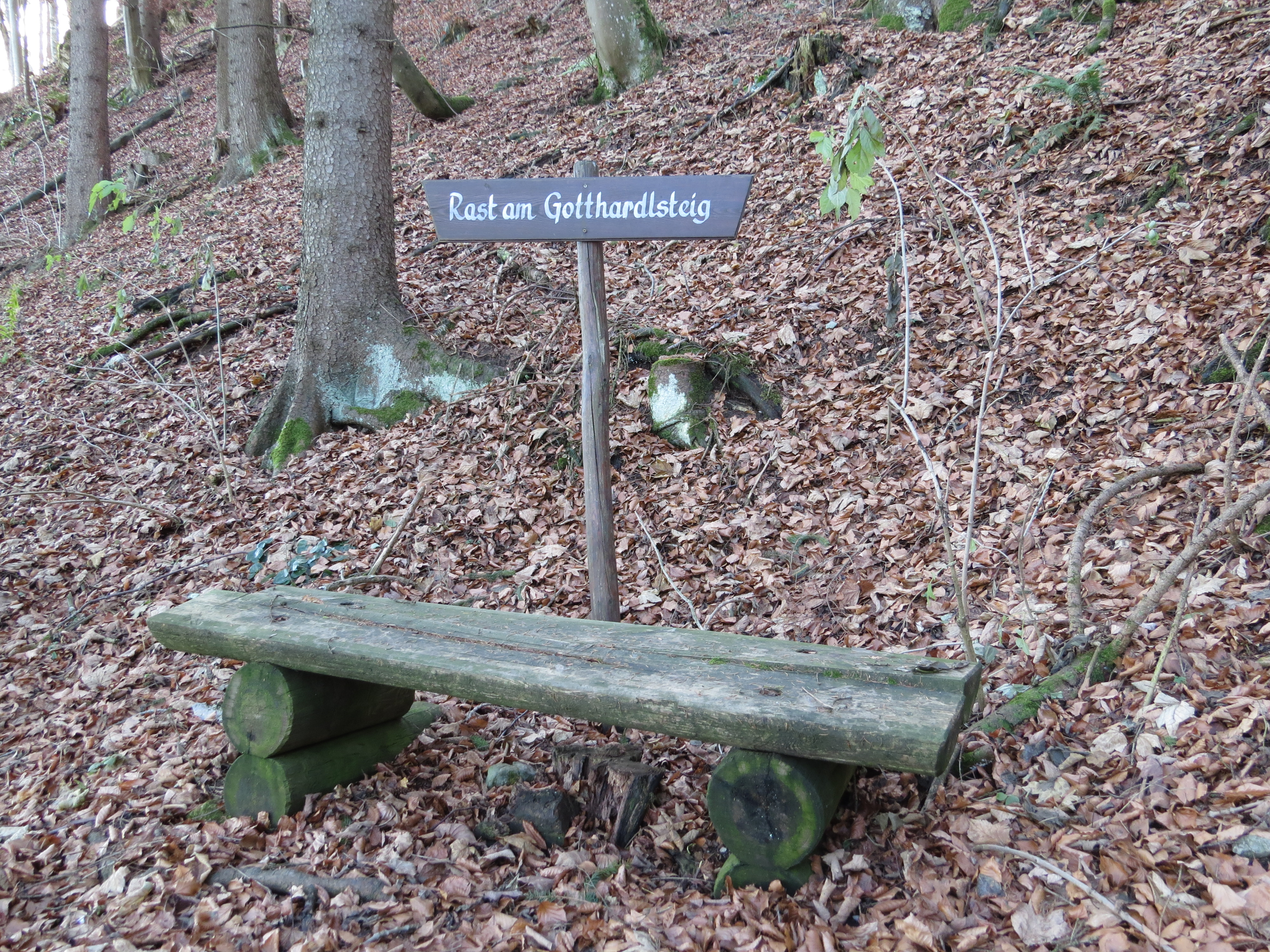 Way from Haltgraben to Grüntalkogelhütte, rest at Gotthardlsteig